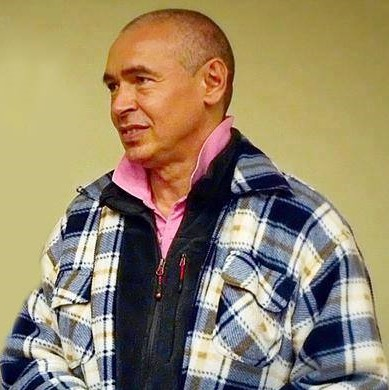 Spain